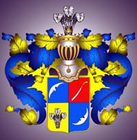 Coat of Arms of Borozdin family